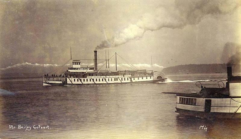 This is the sternwheeler Bailey Gatzert circa 1891, apparently in Elliott Bay. The vessel is underway. The snow-covered Olympic Mountains are visible in the distance.